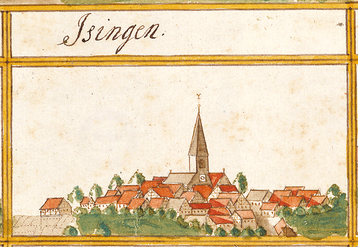 View of Jesingen, Kirchheim unter Teck, from the forest register books created by Andreas Kieser